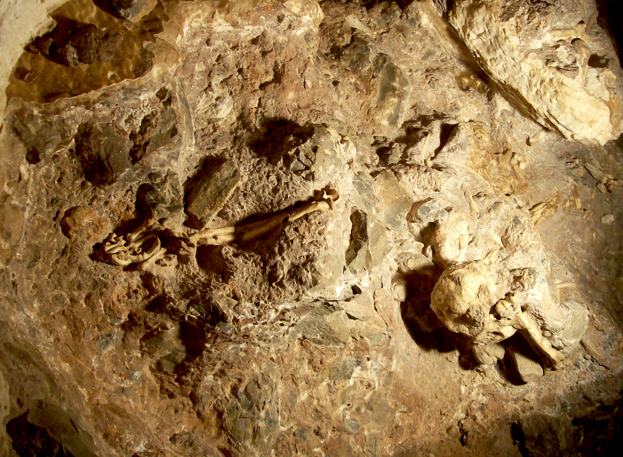 general view of Little Foot skeleton in its original position in Sterkfontein cave, November 2006